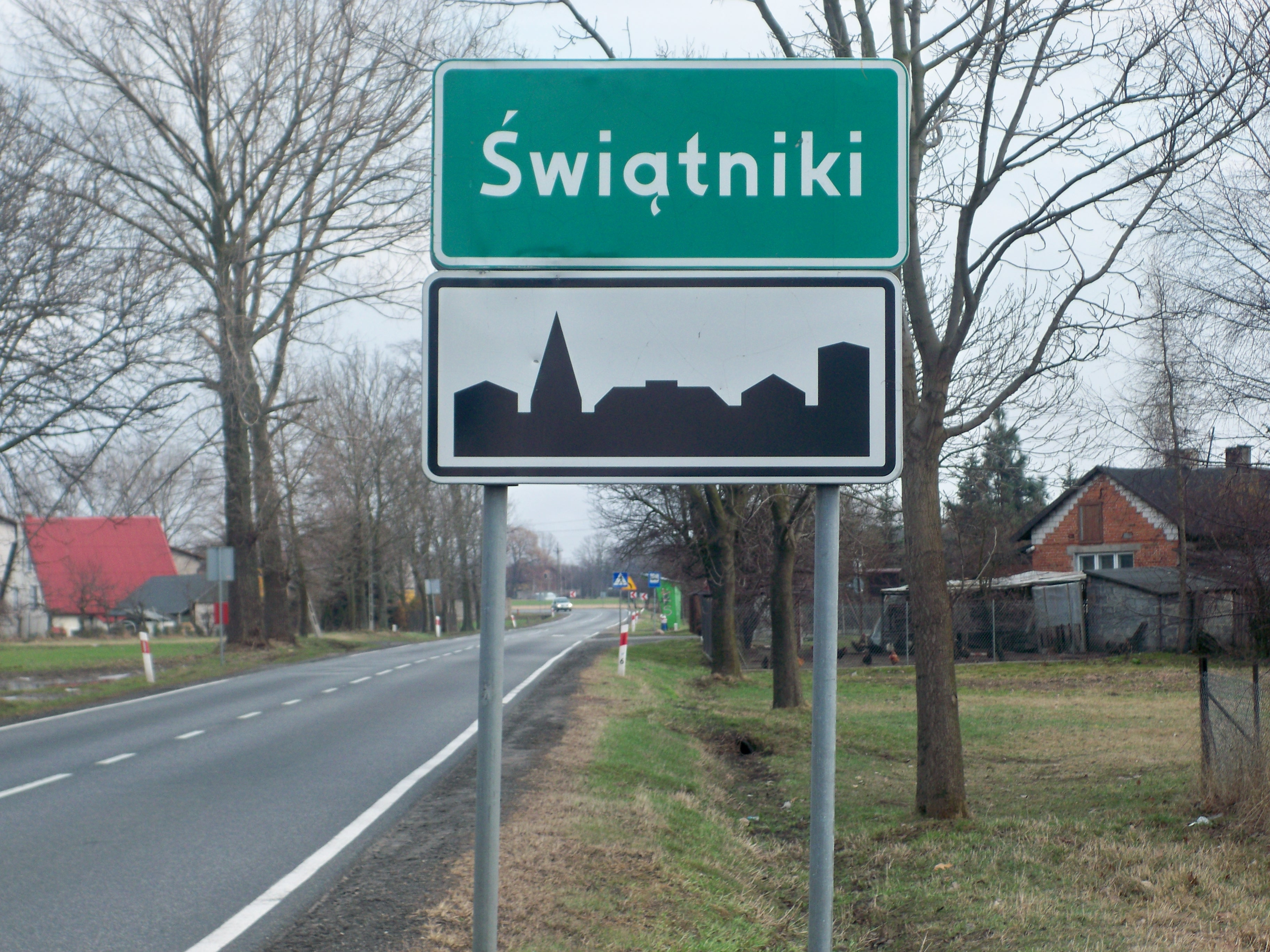 My photo